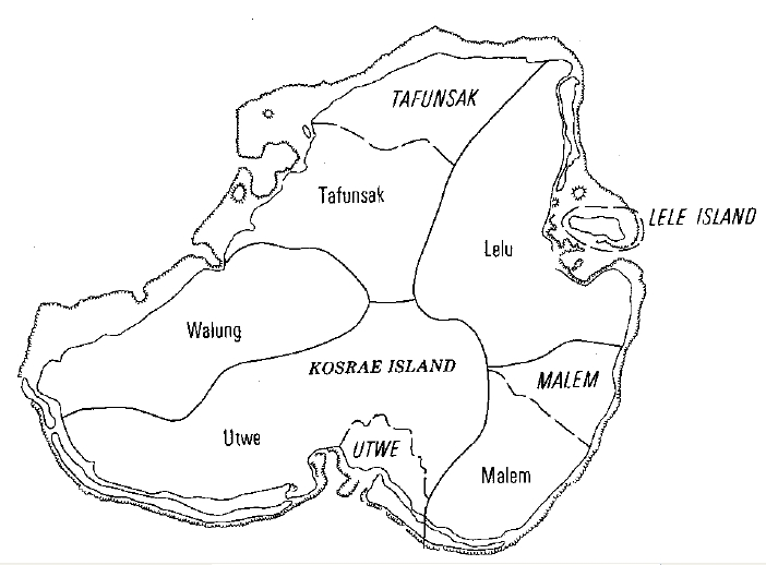 Kosrae map with municipalities and CDPs (census designated places) of 1980 Kosrae is a state of the Federated States of Micronesia in the Central Pacific Ocean